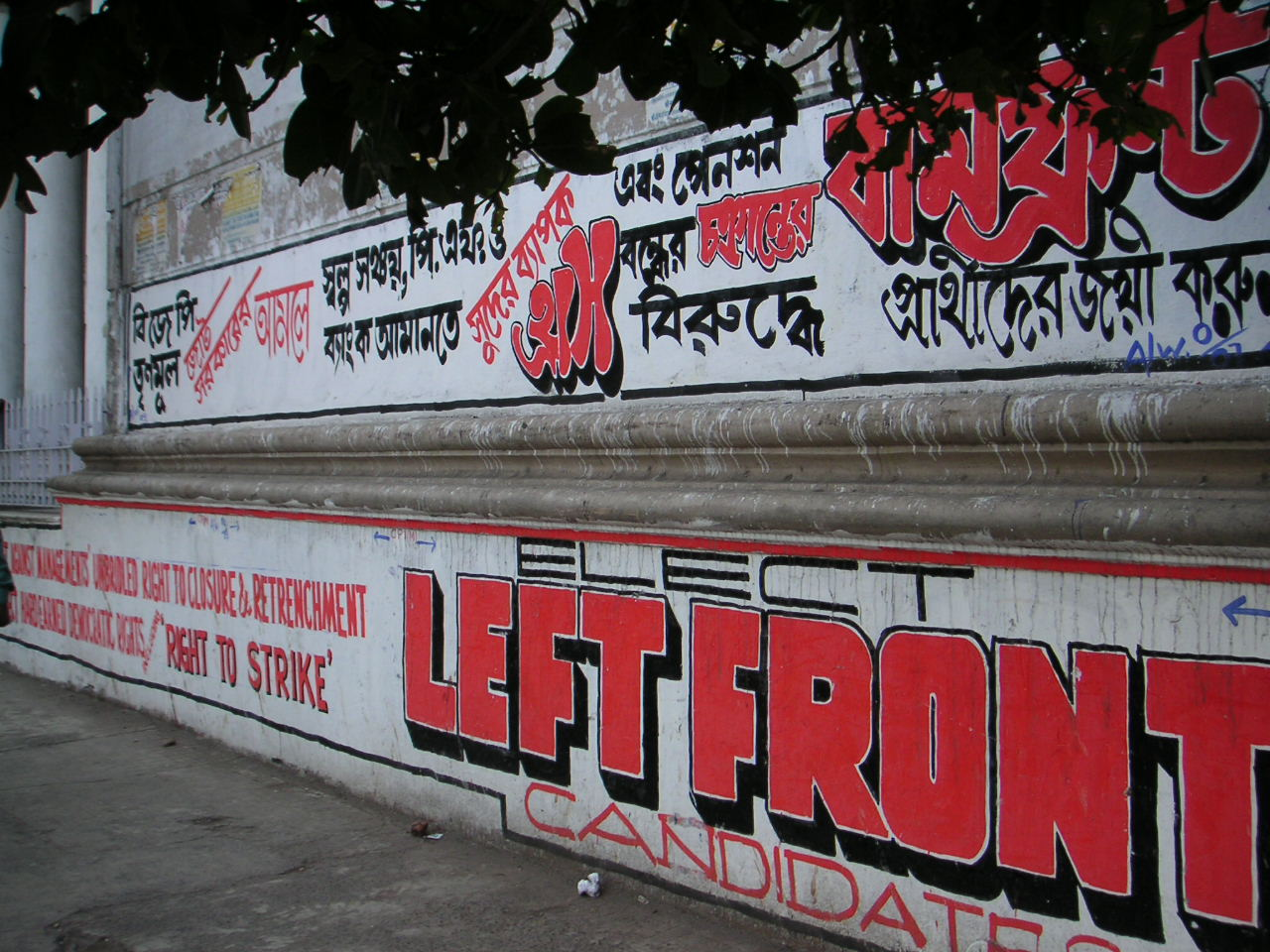 Communist Party of India (Marxist) mural in Kolkata, made ahead of the 2004 parliamentary elections. Photo: Soman